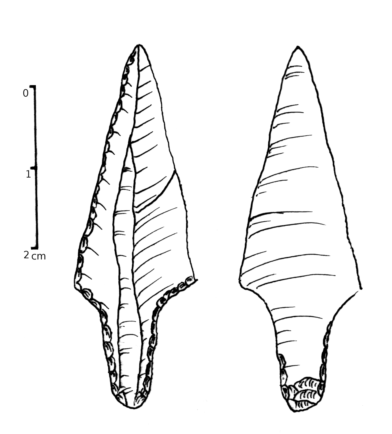 Swiderian tanged point